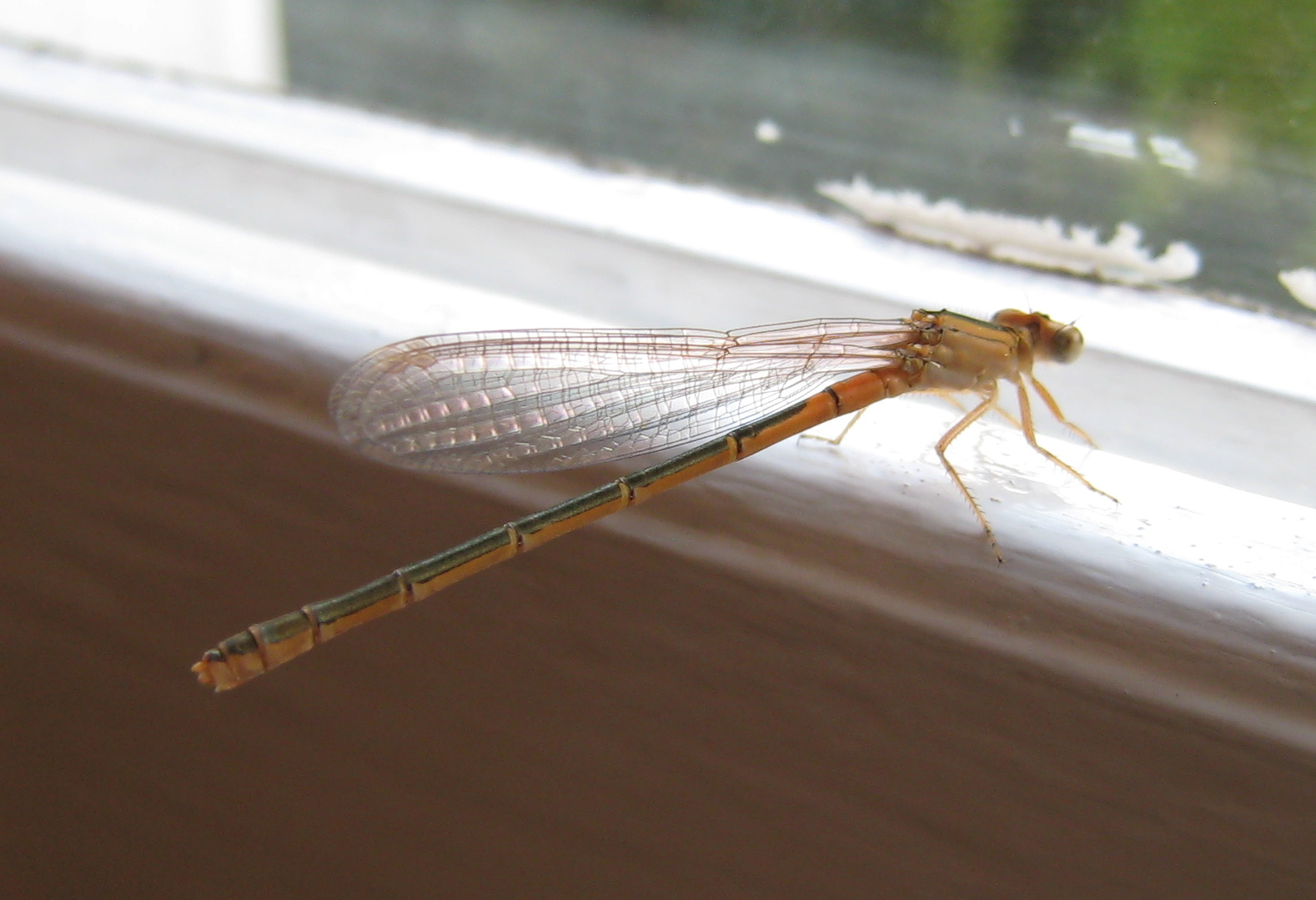 Ischnura pumilio in Thiais (France)